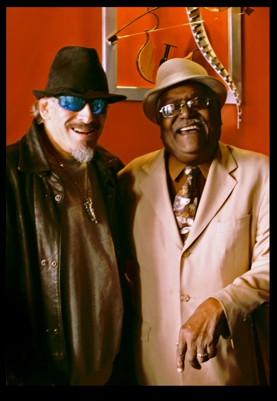 The trumpet players Jerry González & Chocolate Armenteros